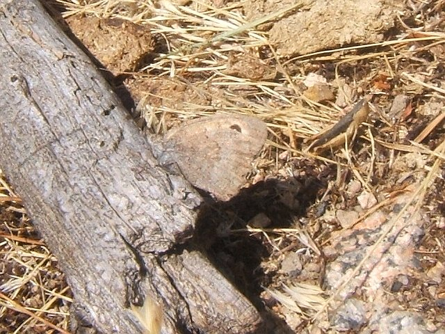 Hyponephele lycaon